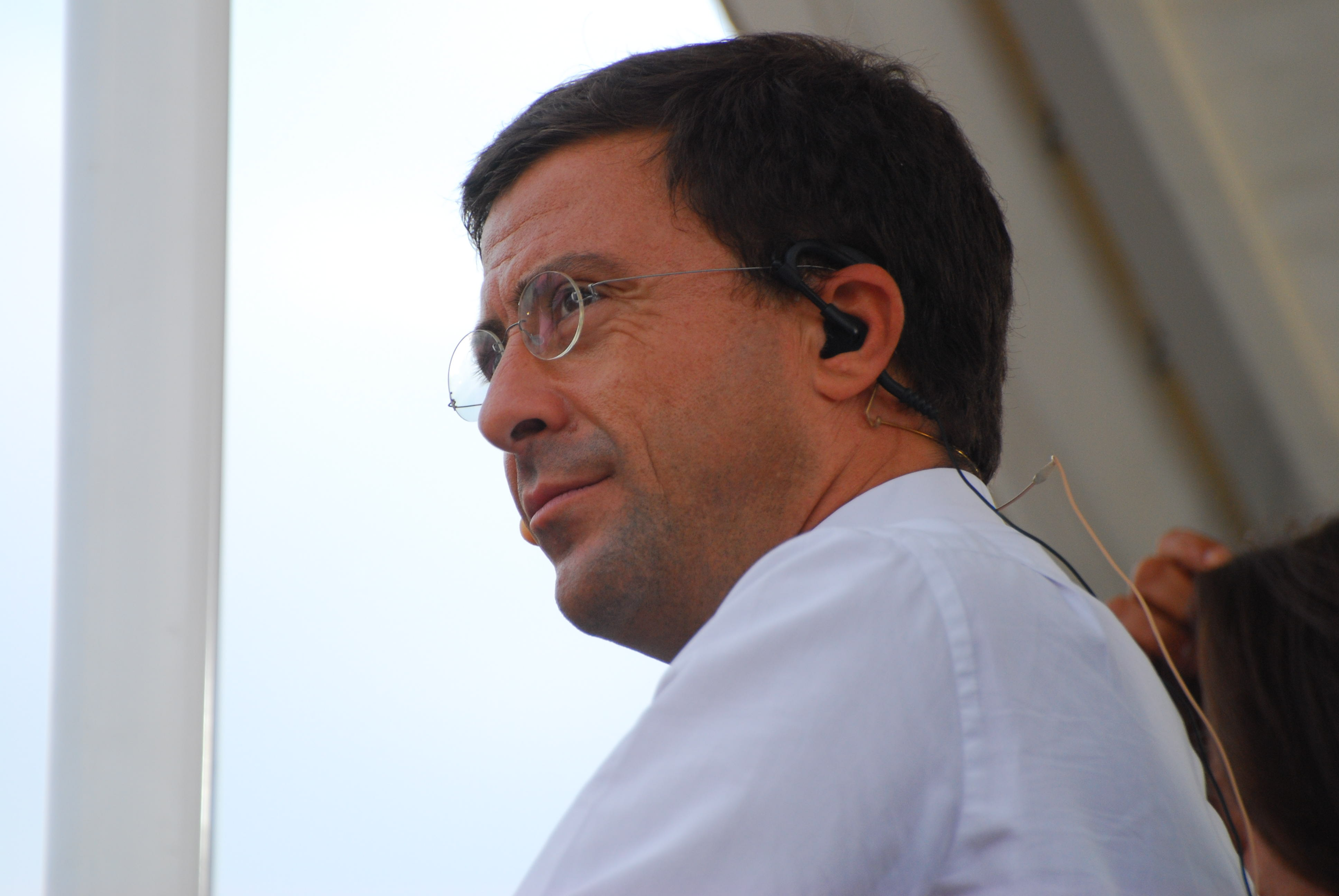 Italo Bocchino is an italian poltician, editor and journalist, group leader of "Futuro e Libertà".